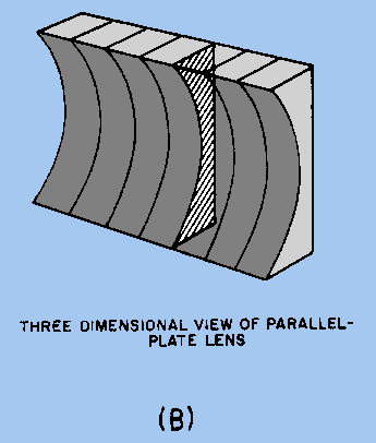 Navy Electricity and Electronics Training Series Non-resident training course - SEPTEMBER 1998 One of 24 Navy Electricity and Electronics modules used by Navy and Marine Corp Technicians.